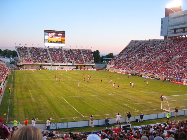 Major League Soccer match at Rice-Eccles Stadium